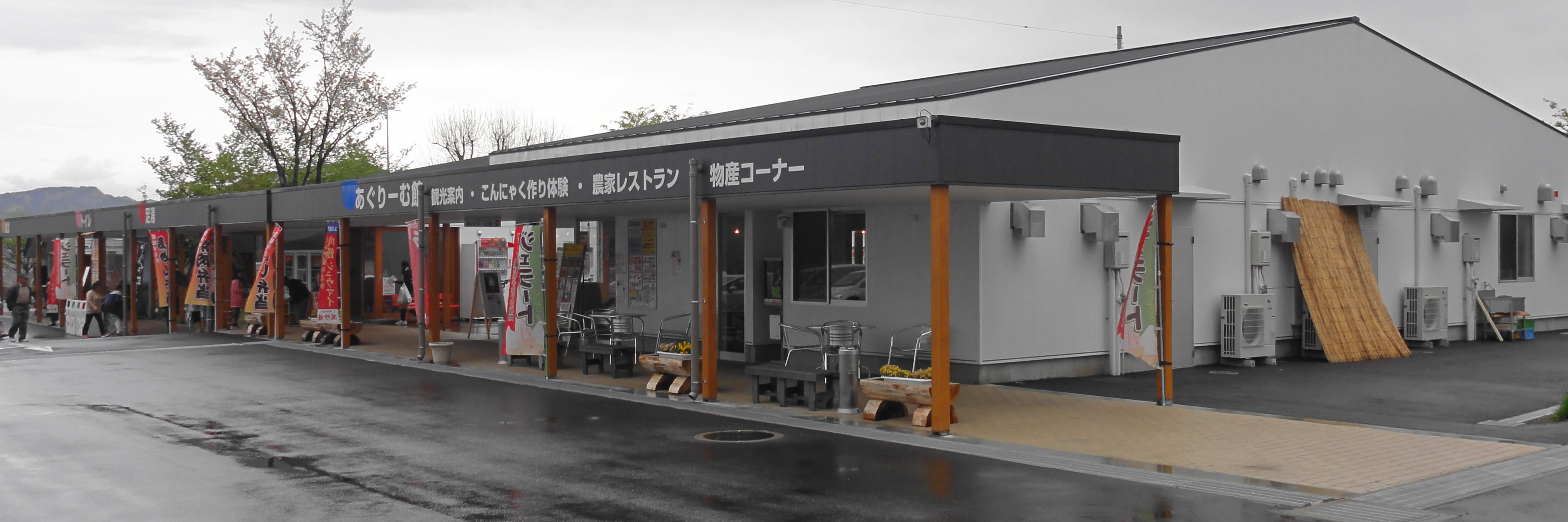 Road to station Aguream Syowa,Gunma prefecture,Japan